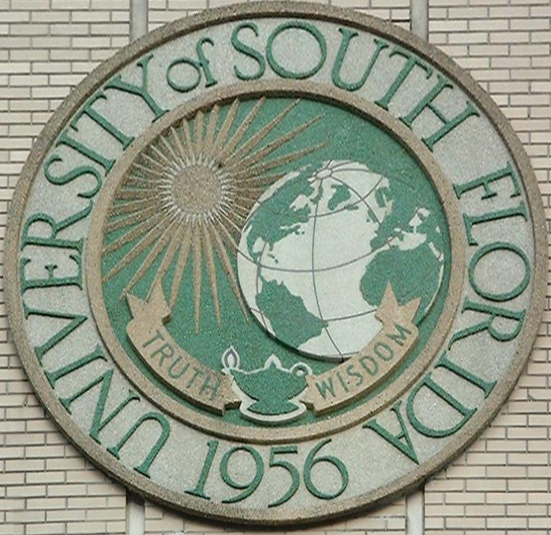 University of South Florida seal.